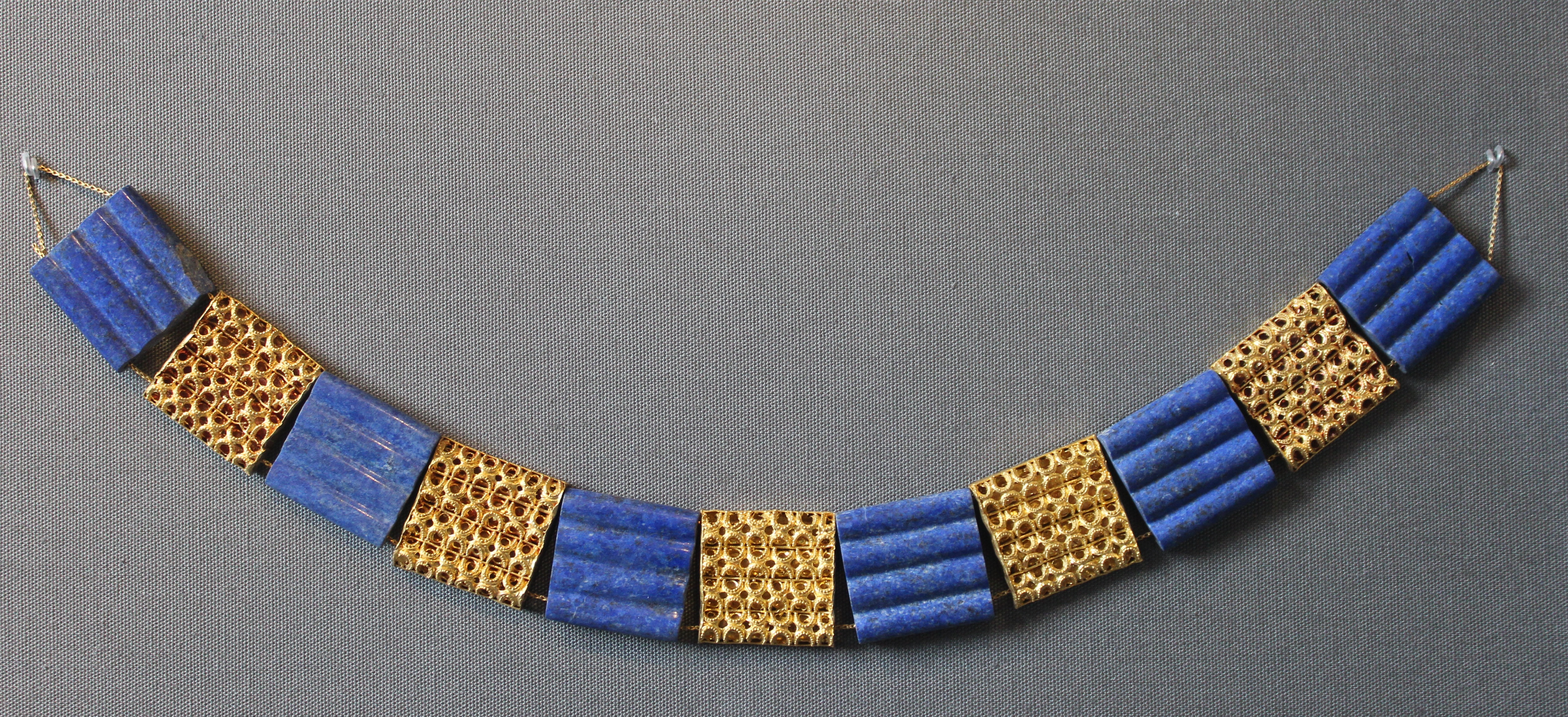 Necklace: gold, lapis-lazuli (jasper?). Tomb 45 of Assur. Middle Assyrian Period (14th-13th century B.C.). Vorderasiatisches Museum Berlin.